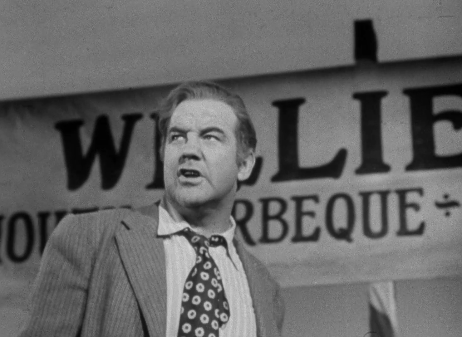 Broderick Crawford as Willie Stark in the trailer for the 1949 film All the King's Men